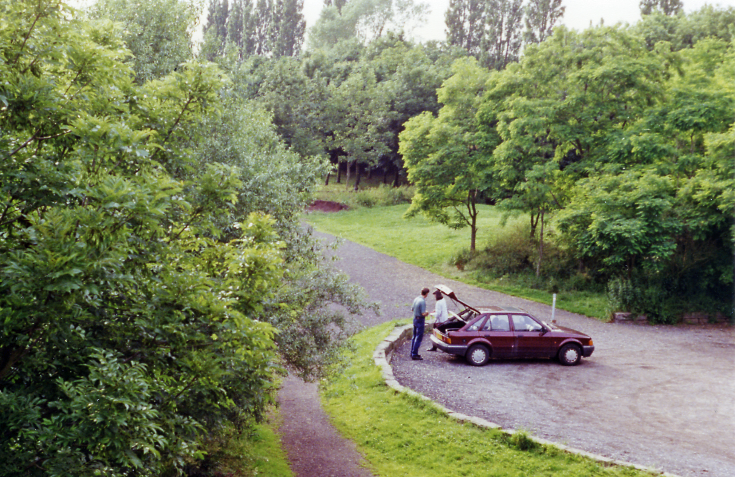 Site of Culcheth station, 1996. View westward, towards Wigan and St Helens: ex-Great Central Glazebrook - Wigan (Central)/St Helens (Central) branches. The branch to St Helens was closed 3/3/52, but the Wigan branch remained for goods traffic until 26/4/68, the passenger service having ceased 2/11/64 and this station was closed. No trace whatever seems to survive.